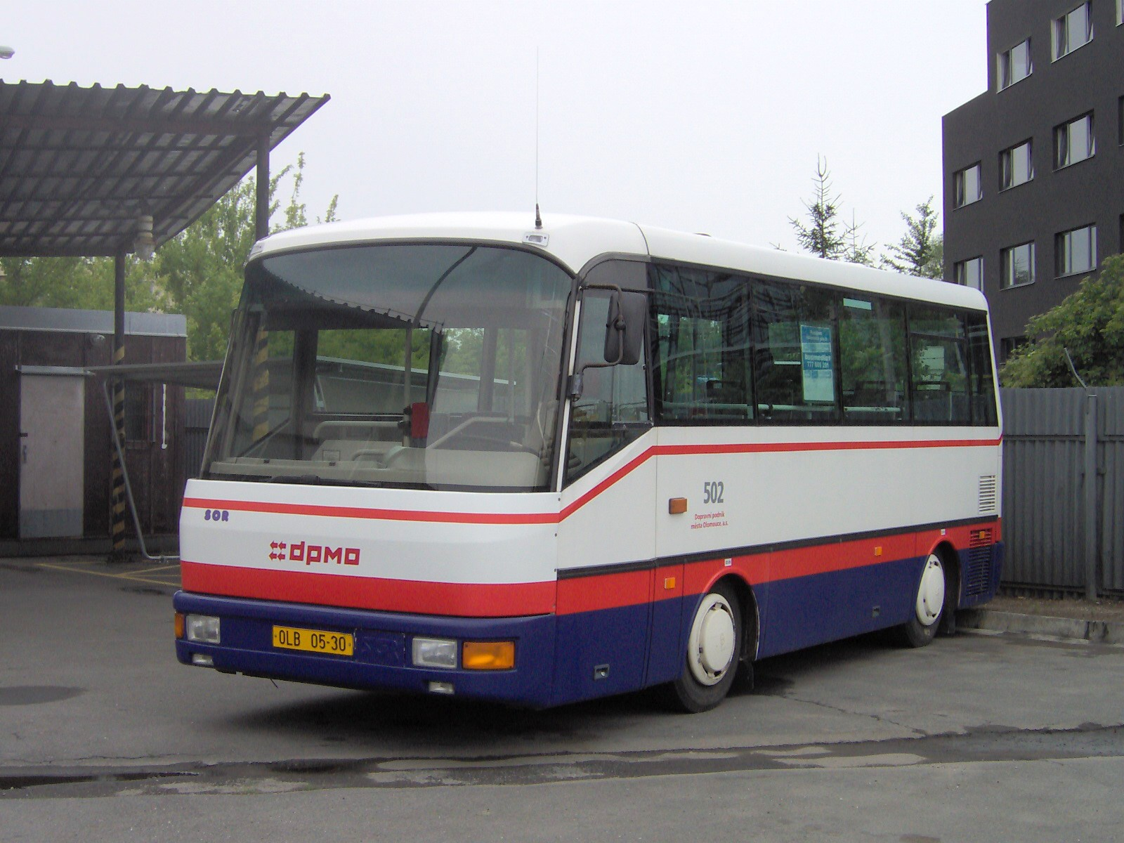 SOR B 7,5 in bus depot, Olomouc, Czech Republic